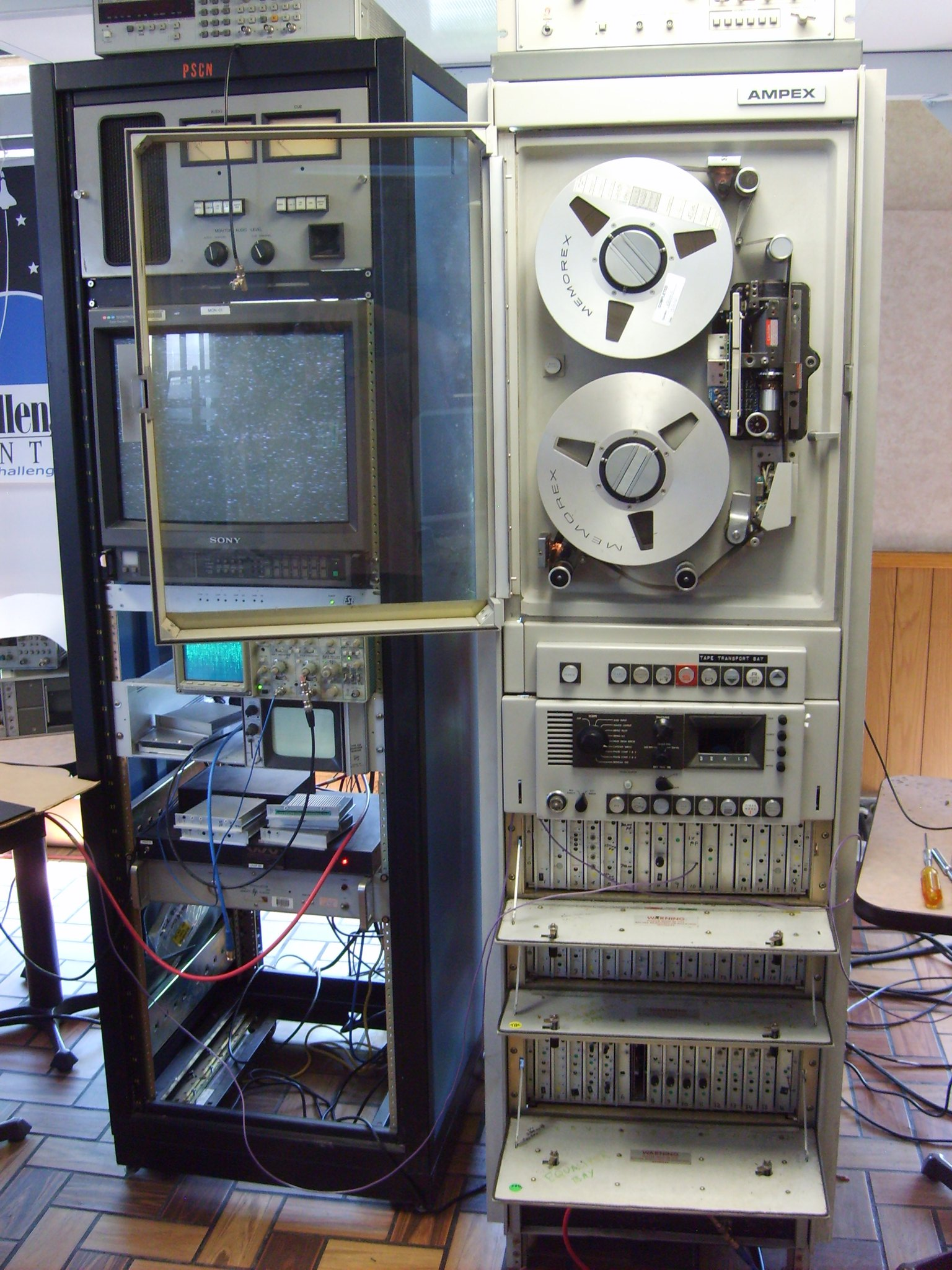 One of the two Ampex FR-900 instrumentation tape drives located at the facilities of the Lunar Orbiter Image Recovery Project (LOIRP) at NASA Ames Research Center. This tape drive is used to recover images of the moon that were sent from the Lunar Orbiter probes, and recorded to tape using an FR-900 like the one pictured.